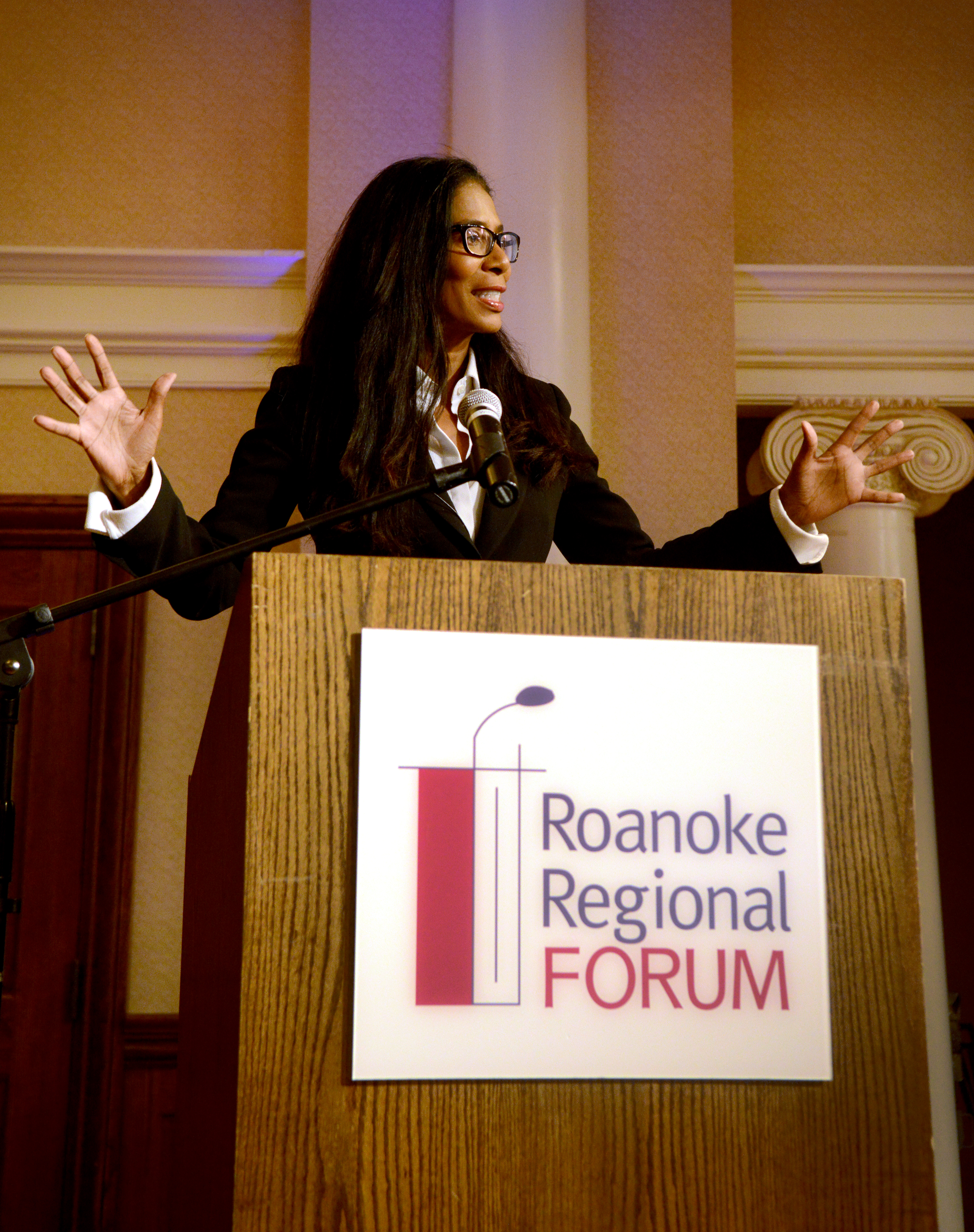 Judy Smith, American crisis manager and inspiration for television program Scandal, speaking at the Roanoke College Regional Forum.